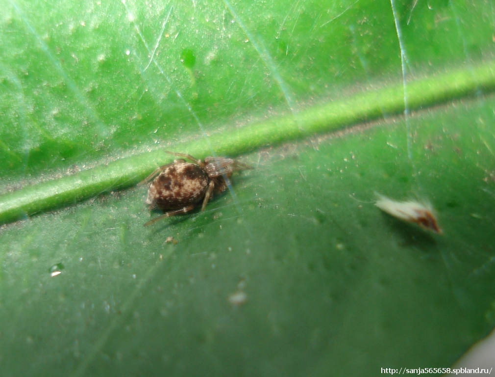 Dictyna uncinata Dictyna uncinata